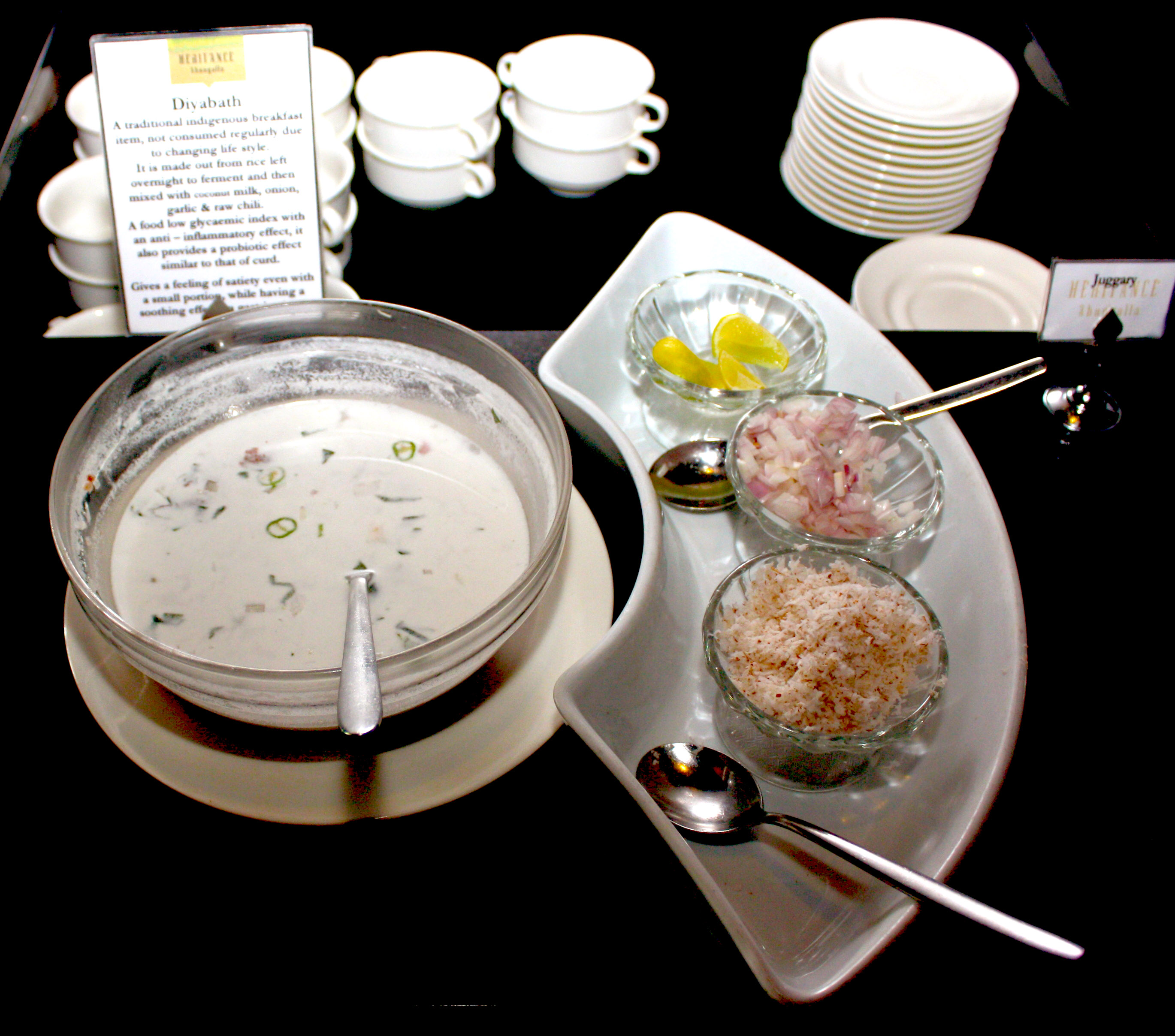 Diyabath - traditional Sri Lanka’s indigenous breakfast item.